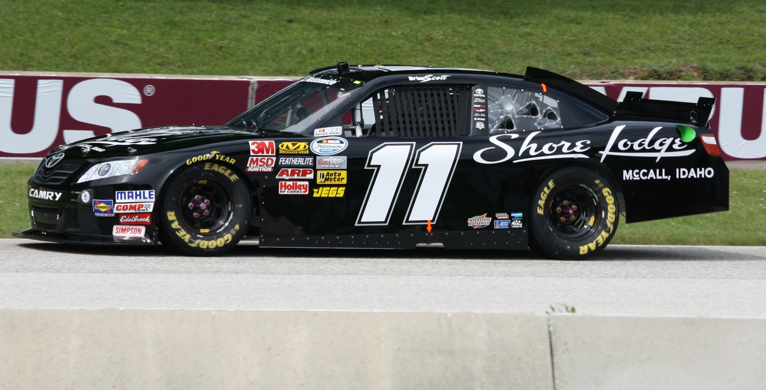 NASCAR driver Brian Scott racing his stock car at Road America at the 2011 Bucyros 200 Nationwide Series race.